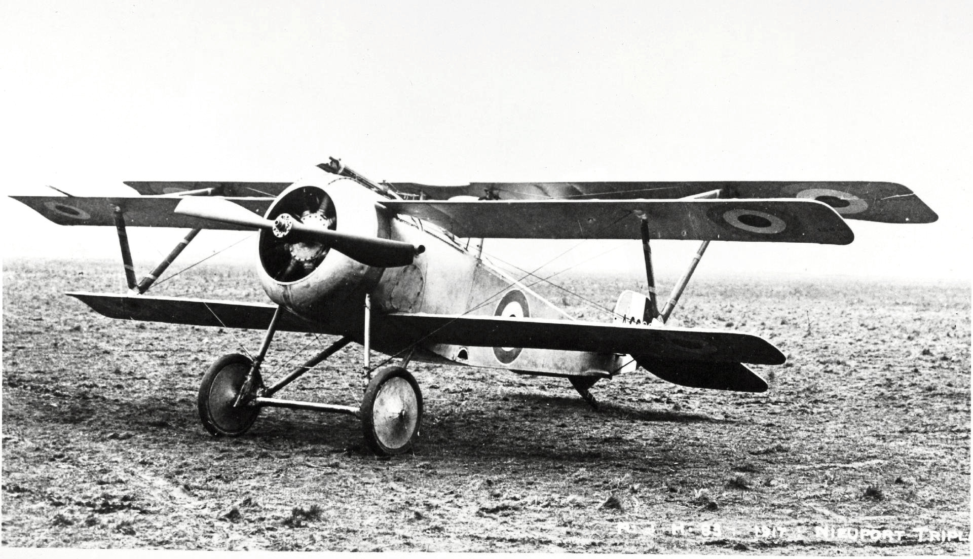 Nieuport 17 triplane